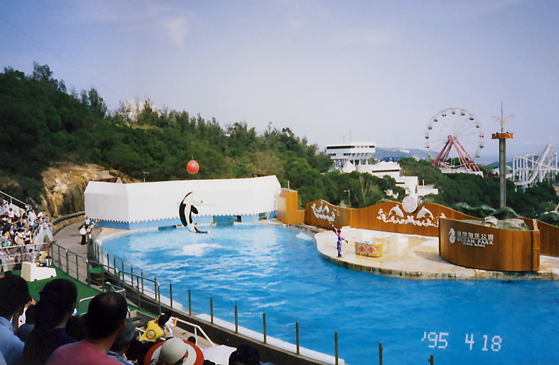 Ocean Theatre, Hong Kong Ocean Park 香港海洋公園海洋劇場表演